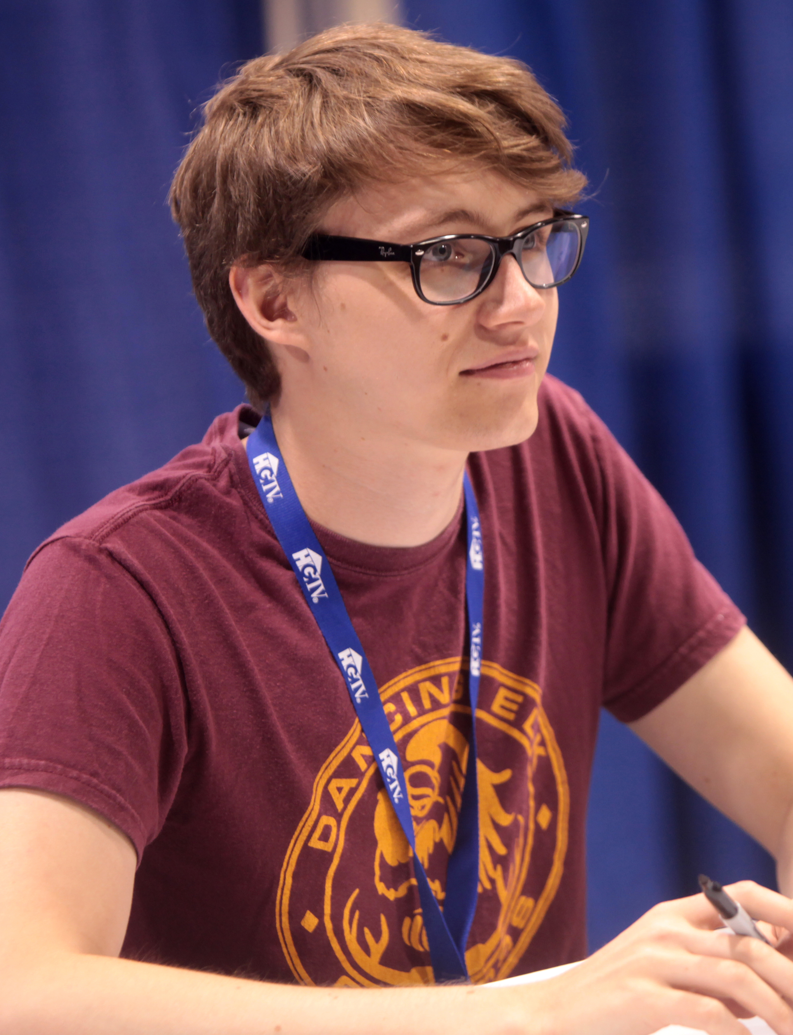 Charlie McDonnell speaking at the 2014 VidCon on June 28, 2014.